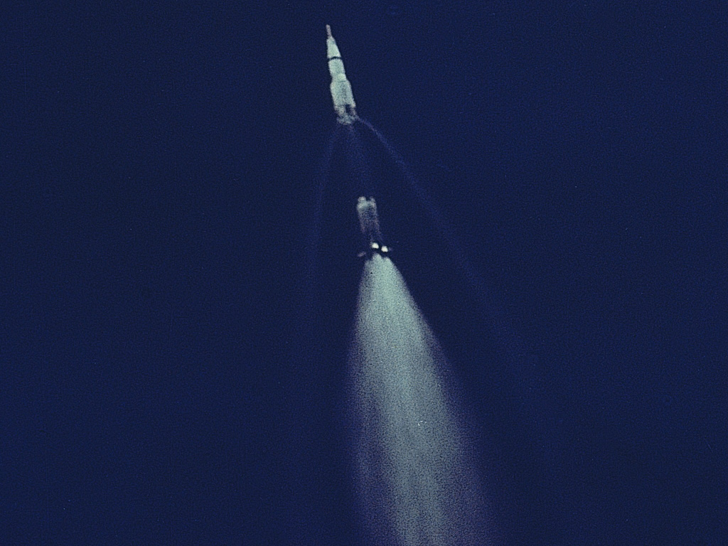 A 70mm Airborne Lightweight Optical Tracking System (ALOTS) camera, mounted in a pod on a cargo door of a U.S. Air Force EC-135N aircraft, photographed this event in the early moments of the Apollo 11 launch. The mated Apollo spacecraft and Saturn V second (S-II) and third (S-IVB) stages pull away from the expended first (S-1C) stage. Separation occurred at an altitude of about 38 miles, some 55 miles downrange from Cape Kennedy. The aircraft's pod is 20 feet long and 5 feet in diameter. Flying the Apollo 11 lunar landing mission are astronauts Neil A. Armstrong, Michael Collins, and Edwin E. Aldrin Jr.